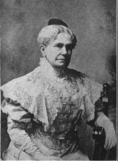 Lucy Ann Kidd–Key (née Lucy Ann Thornton; at first marriage, Lucy Ann Kidd; 15 November 1839, Bardstown, Kentucky - 13 September 1916) - educator